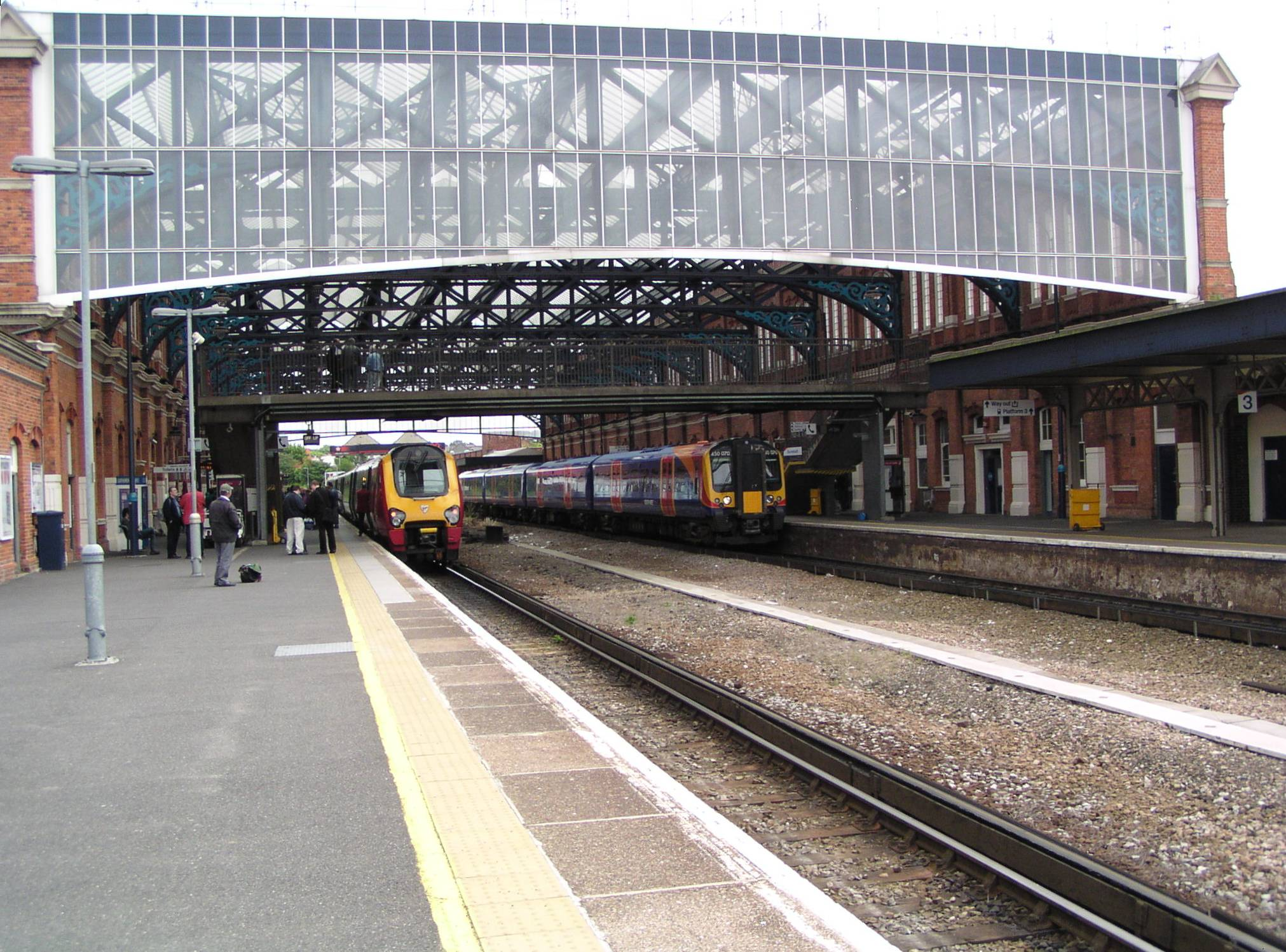 Bournemouth railway station. Visible in the platforms are a Virgin Trains Voyager unit and a South West Trains Desiro unit.